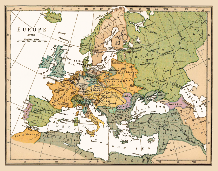 Europe 1792, map from 1898